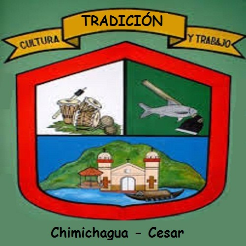 Escudo Chimichagua